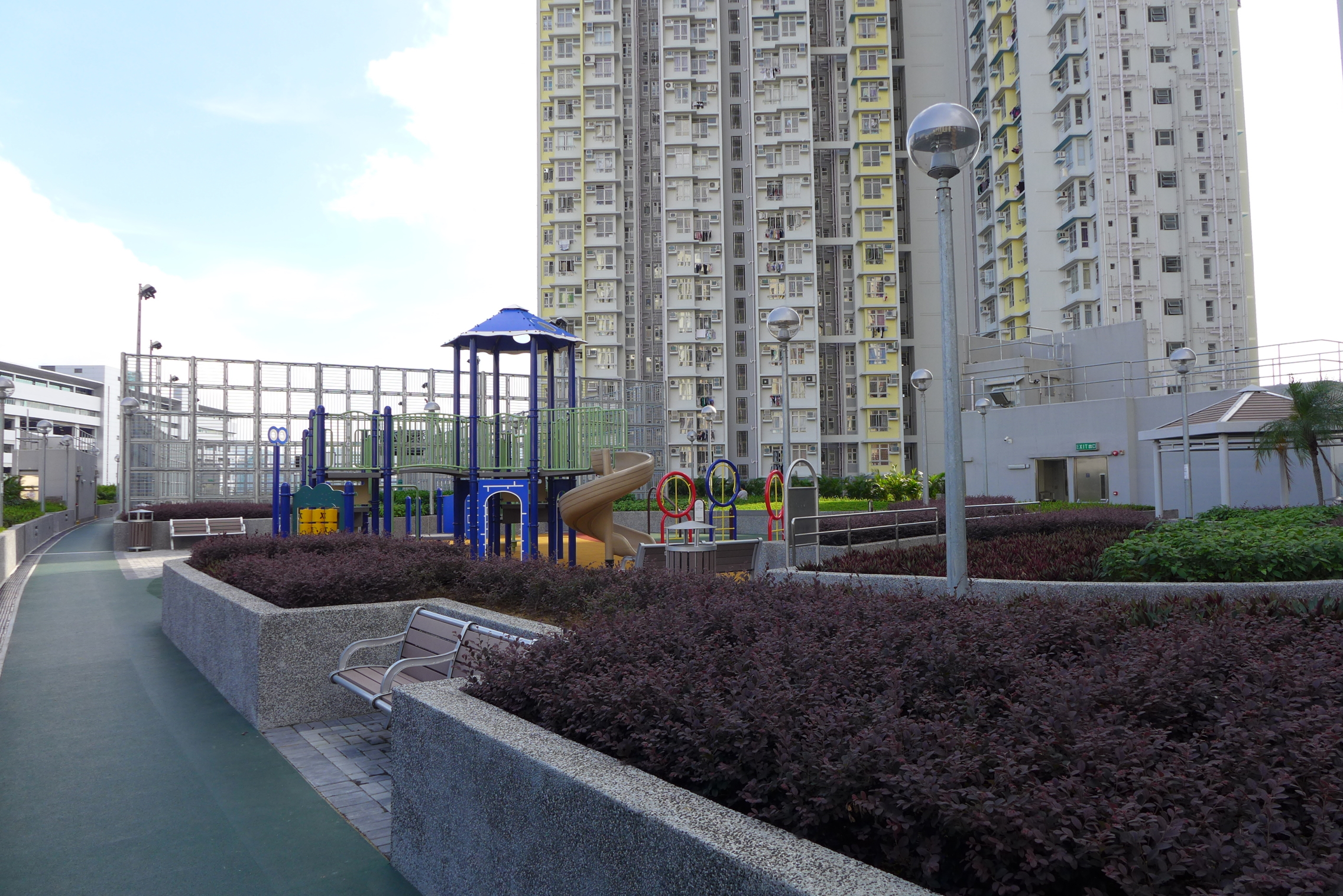 Tak Long Estate Carpark Podium Facilities